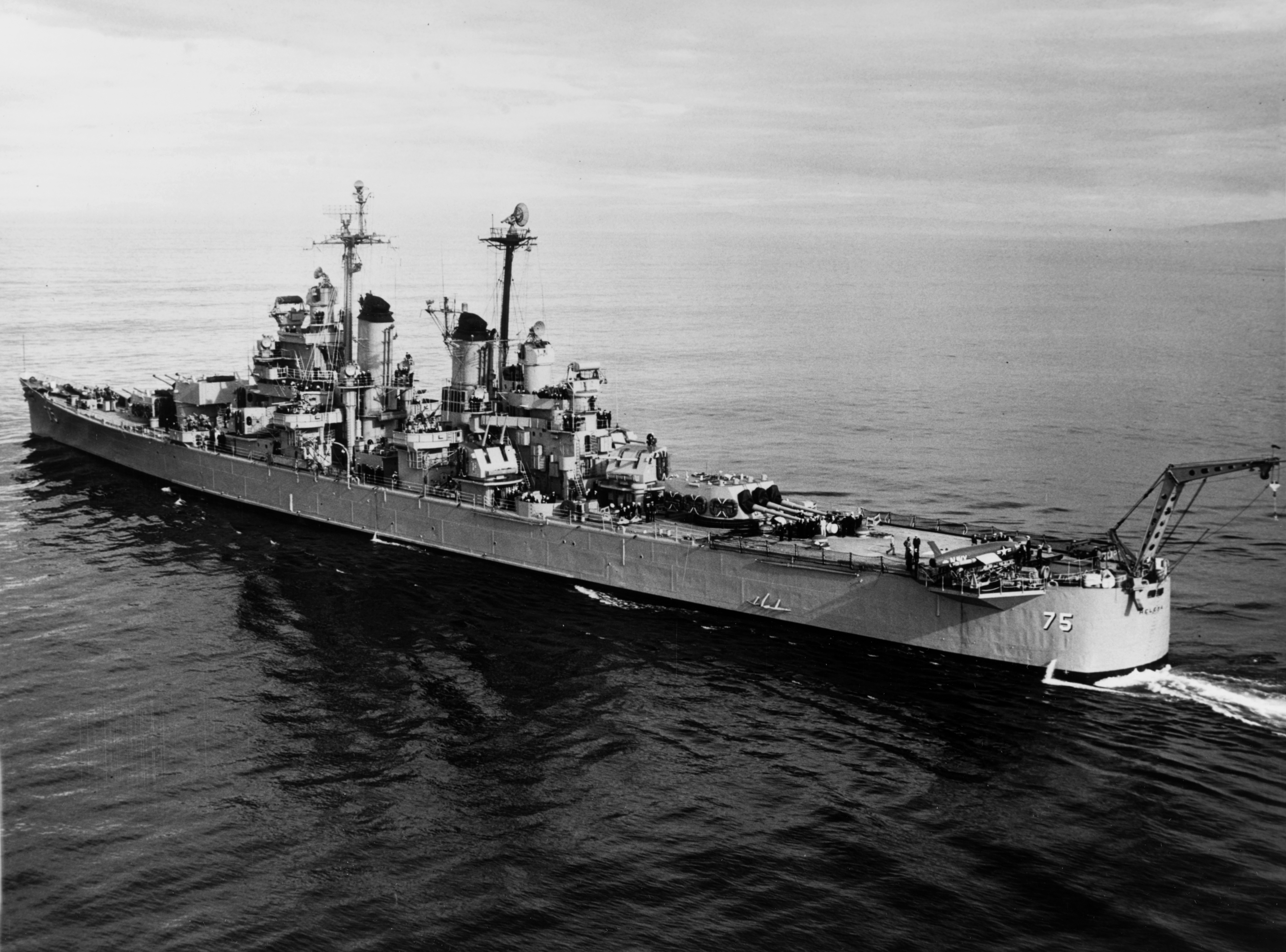 The U.S. Navy heavy cruiser USS Helena (CA-75) with a SSM-N-8 Regulus I guided missile on her fantail being readied for firing during tests off Monterey, California (USA), in early 1957.